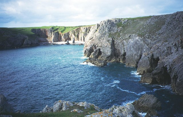 Flimston Bay. Limestone seacliffs and a difficult to access beach. Seen from SR935943.